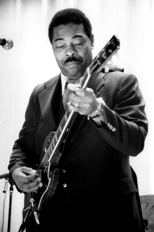 American electric blues slide guitarist John Littlejohn in Paris, France.